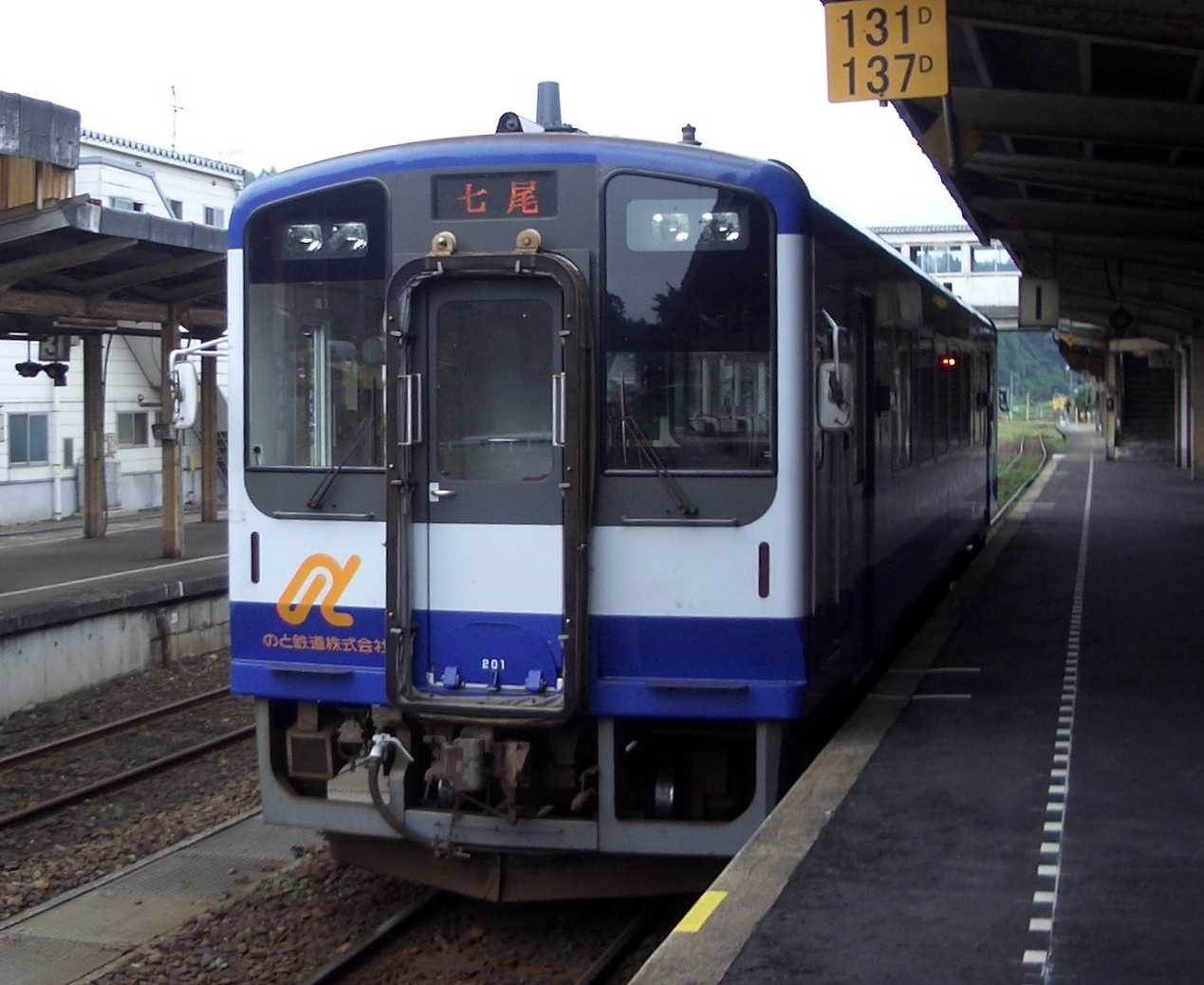 This is a picture of a train of NT200 bound for Nanao Station.